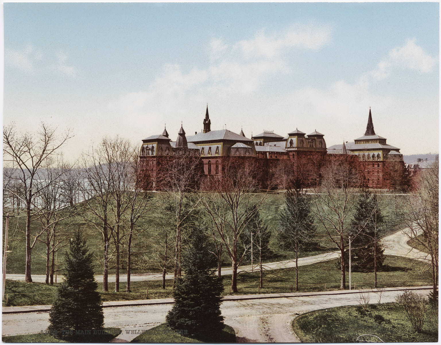 Sea to Shining Sea part 7: The main building of Wellesley College. A women's liberal arts college, in Wellesley, Massachusetts, founded in 1875 by Henry Fowle Durant and his wife Pauline Fowle Durant. A photochrom postcard published by the Detroit Photographic Company.